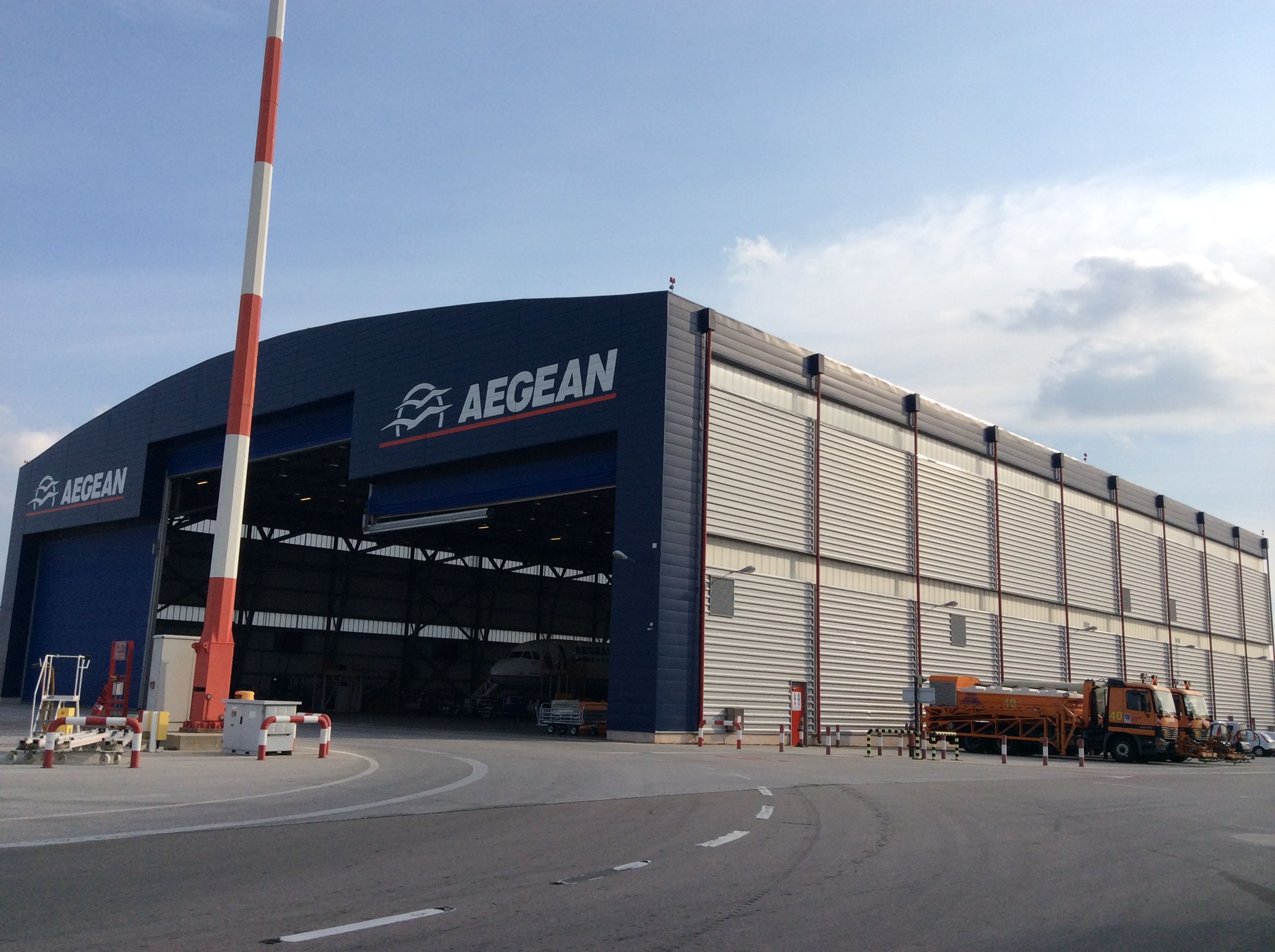 Aegean Airlines Hangar